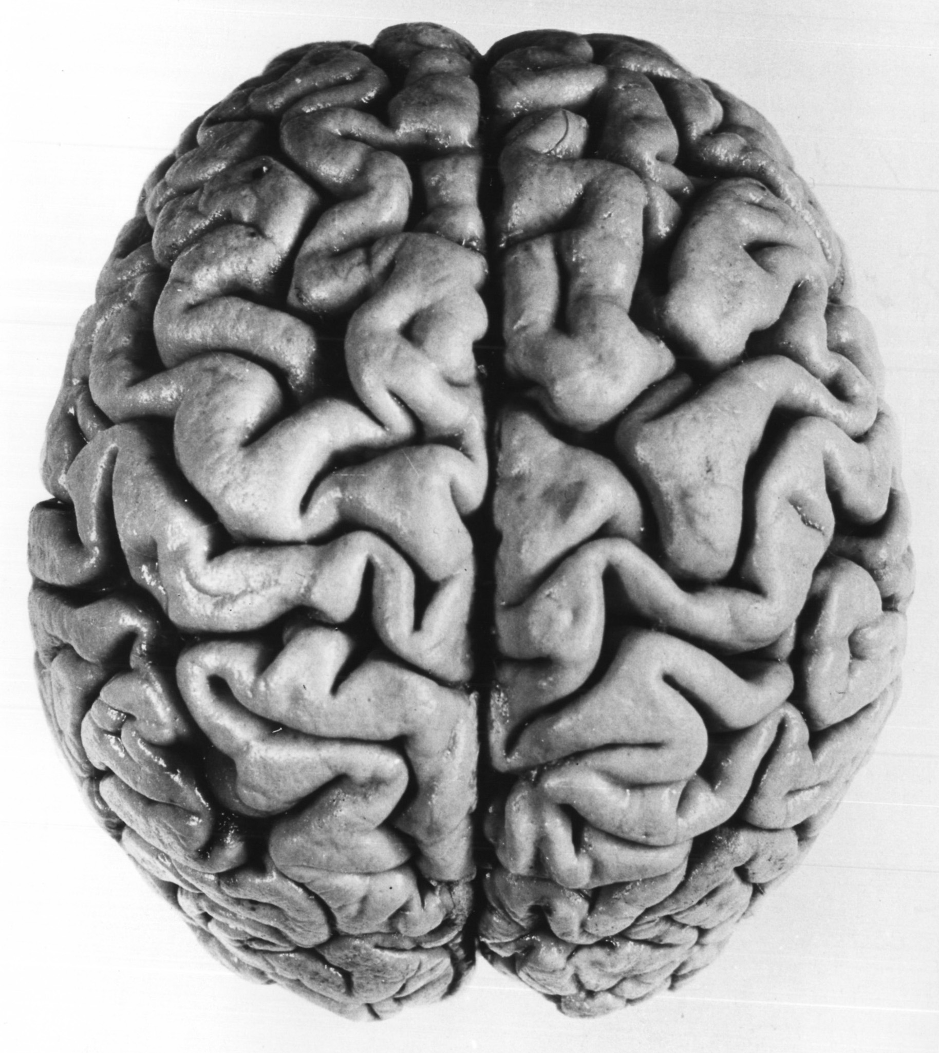 Facies dorsalis cerebri, plate from monograph by Maksymilian Rose